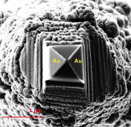 SEM images of a typical Campanile probe